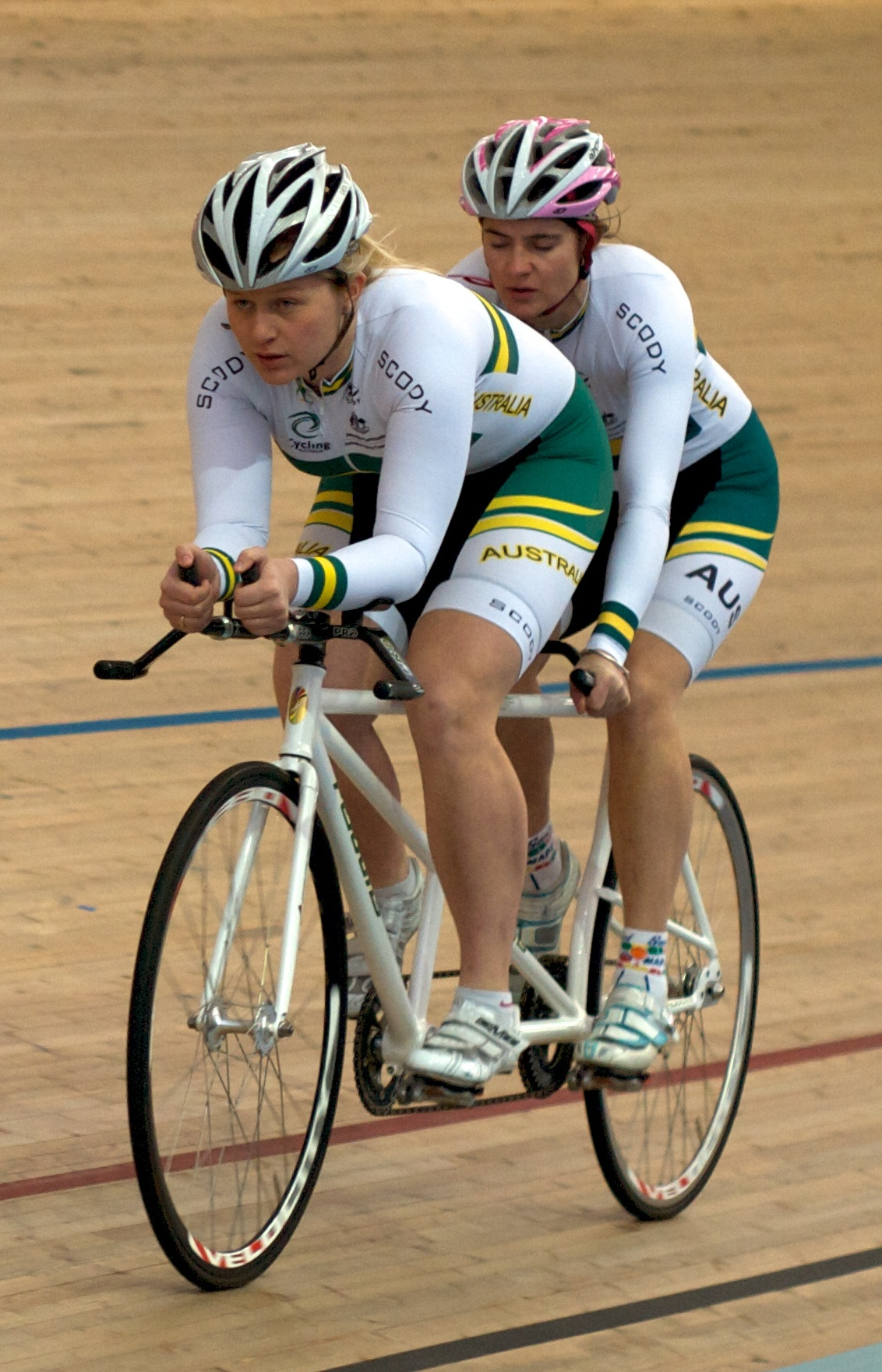 Stephanie Morton and Felicity Johnson riding at the announcement of the 2012 Australian Paralympic cycling team.